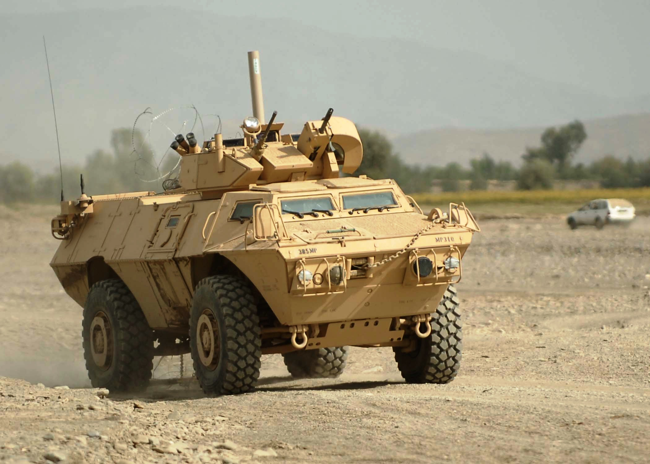 An M-1117 armored security vehicle from 3rd Platoon, 546th Company, 385th MP Battalion, 3rd Infantry Division, travels through a dry river bed near the town of Yaqubi in Sabari District, Khost province, Afghanistan, Sept. 30, 2007.